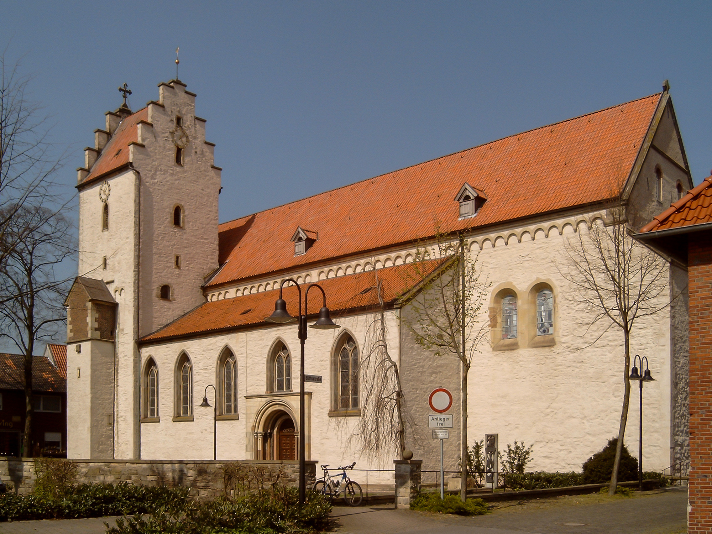 Metelen, church